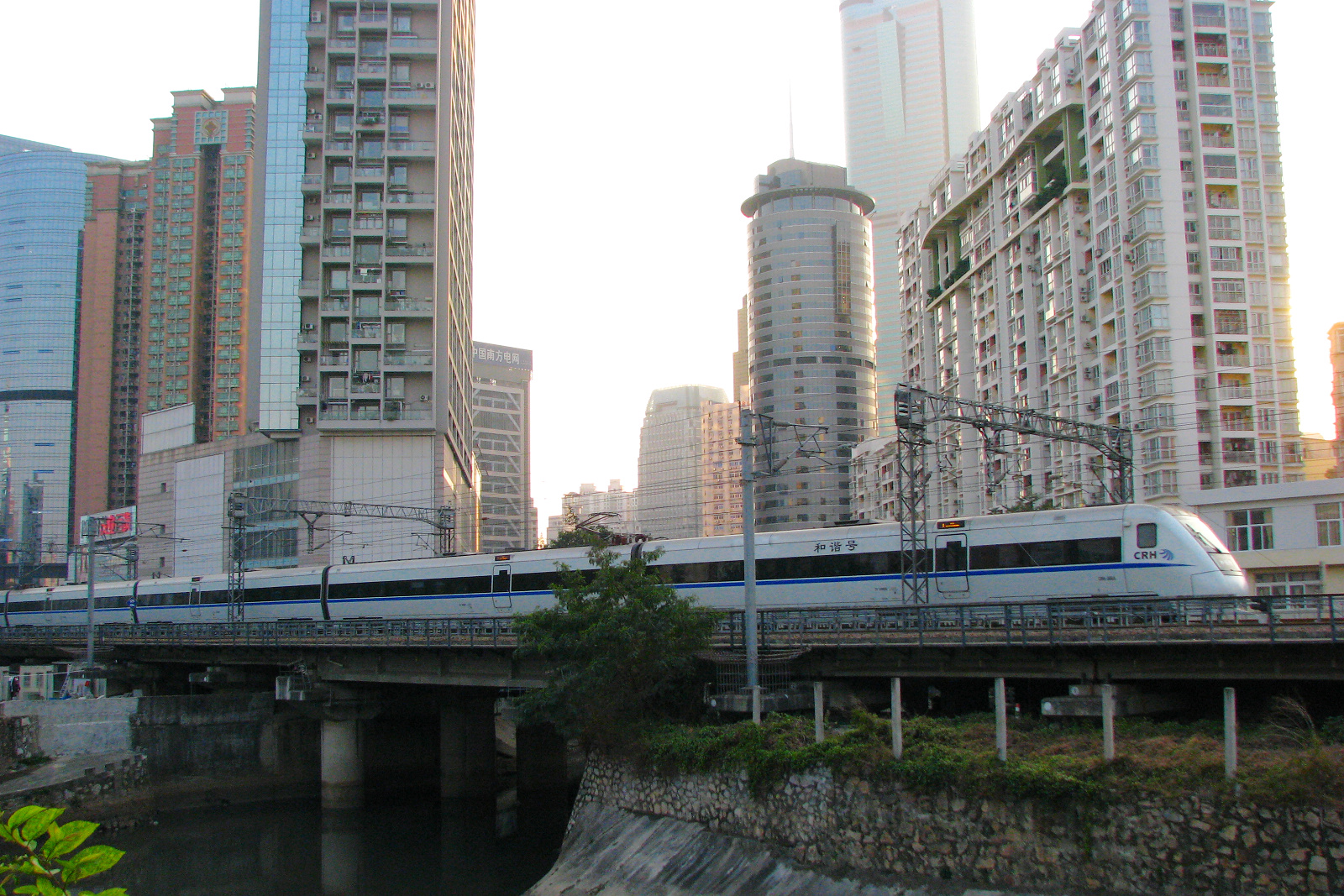 A CRH1A EMU on the Shenzhen section of Guangshen (Guangzhou - Shenzhen) Railway.